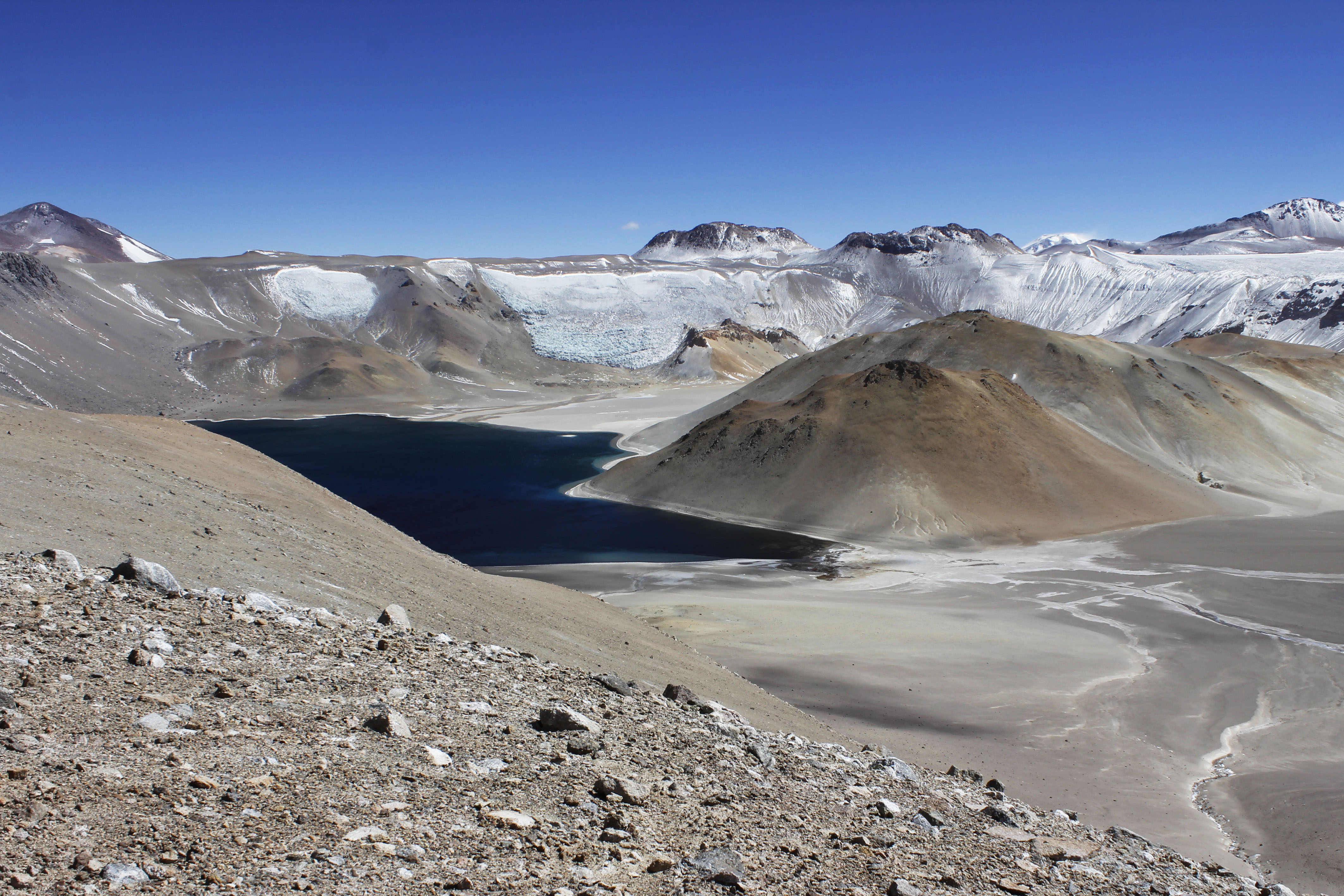 Laguna Corona del Inca a 5400 msnm, La Rioja, Argentina